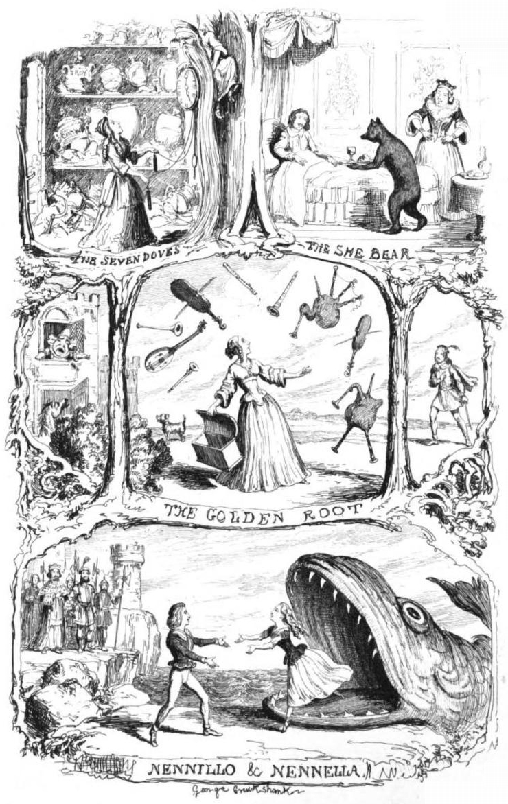 Illustration of the fairy tales, The Seven Doves, The She-Bear, The Golden Root, and Nennillo and Nennella, as scanned from the book The Pentamerone, or The Story of Stories